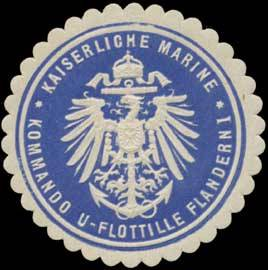 Sealing stamp Title: K. Marine Kommando U-Flottille Flandern I Description: U-Boot Place: size: 4 cm